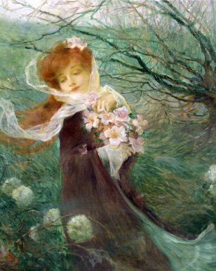 Mihail Simonidi (1870 - 1933) - Winter perfume, 81.3x73.7 cm.